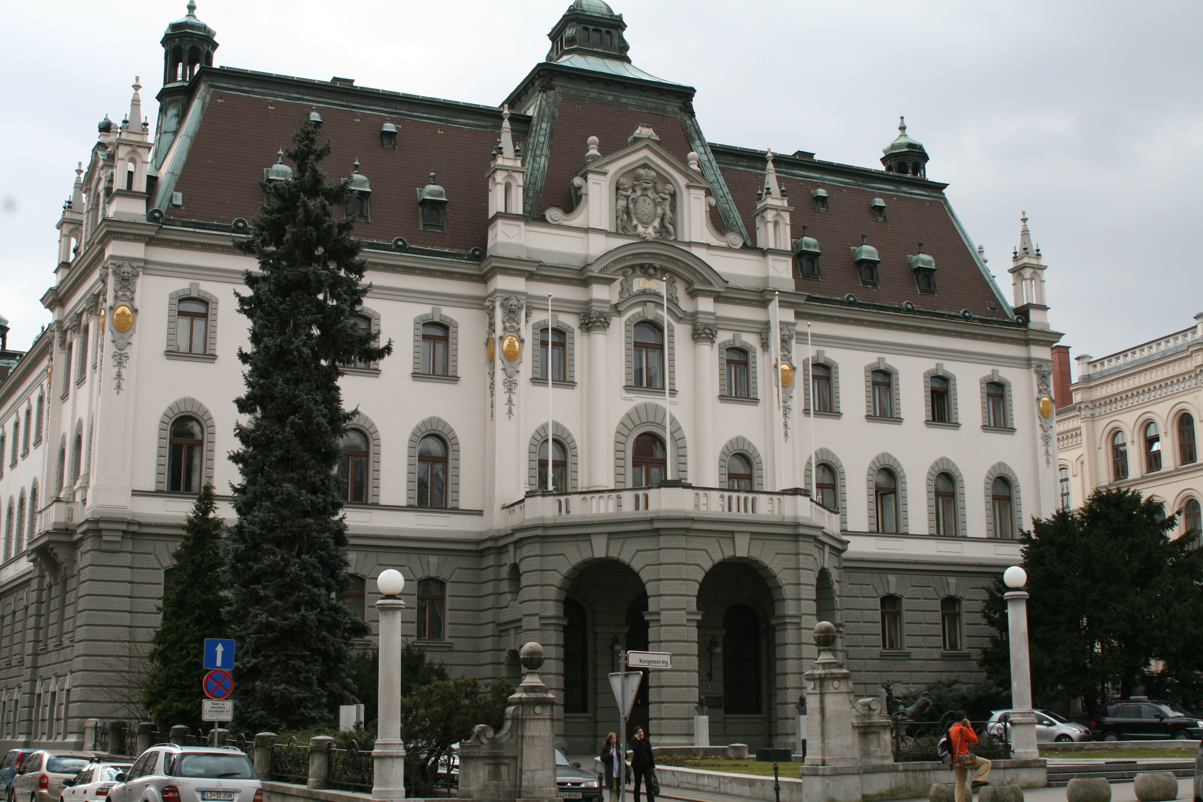 Carniolan Estate Palace (1900); now the headquarters of the University of Ljubljana.